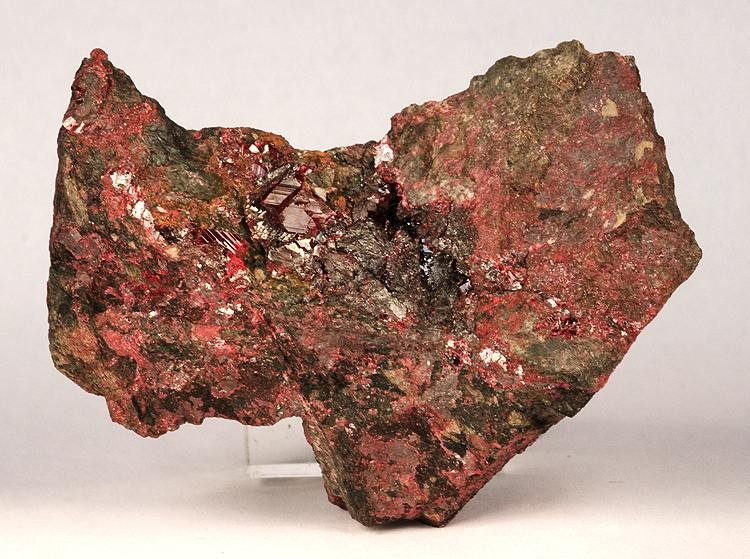 Cinnabar, Mercury Locality: Almadén, Almadén District, Ciudad Real, Castile-La Mancha, Spain (Locality at ) Size: 7.7 x 5.6 x 2.5 cm. Very well defined cinnabar crystals with excellent lustre and magnificent red color are nicely concentrated on the sculptural matrix containing a very high percentage of cinnabar. There are even a few tiny droplets of native mercury scattered about. An excellent and very rich example from this classic mine, closed some years ago.